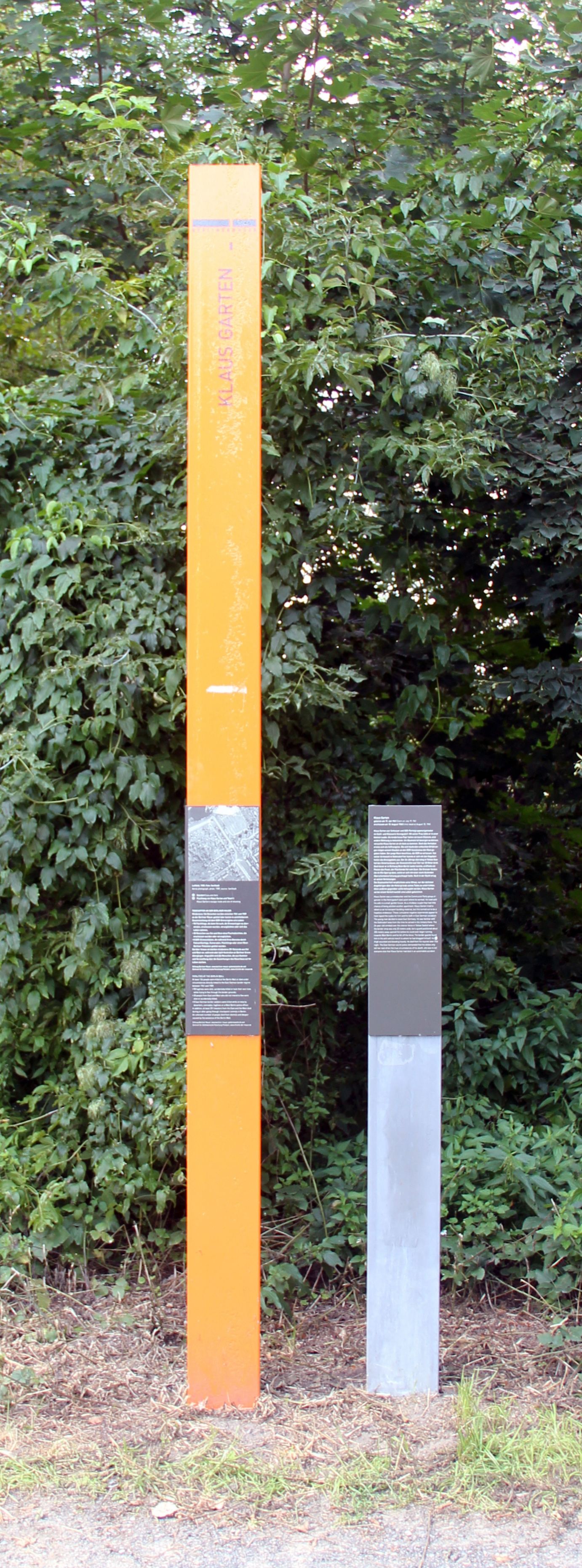 Memorial plaque, Klaus Garten, Paul-Gerhardt-Straße, Teltow, Deutschland